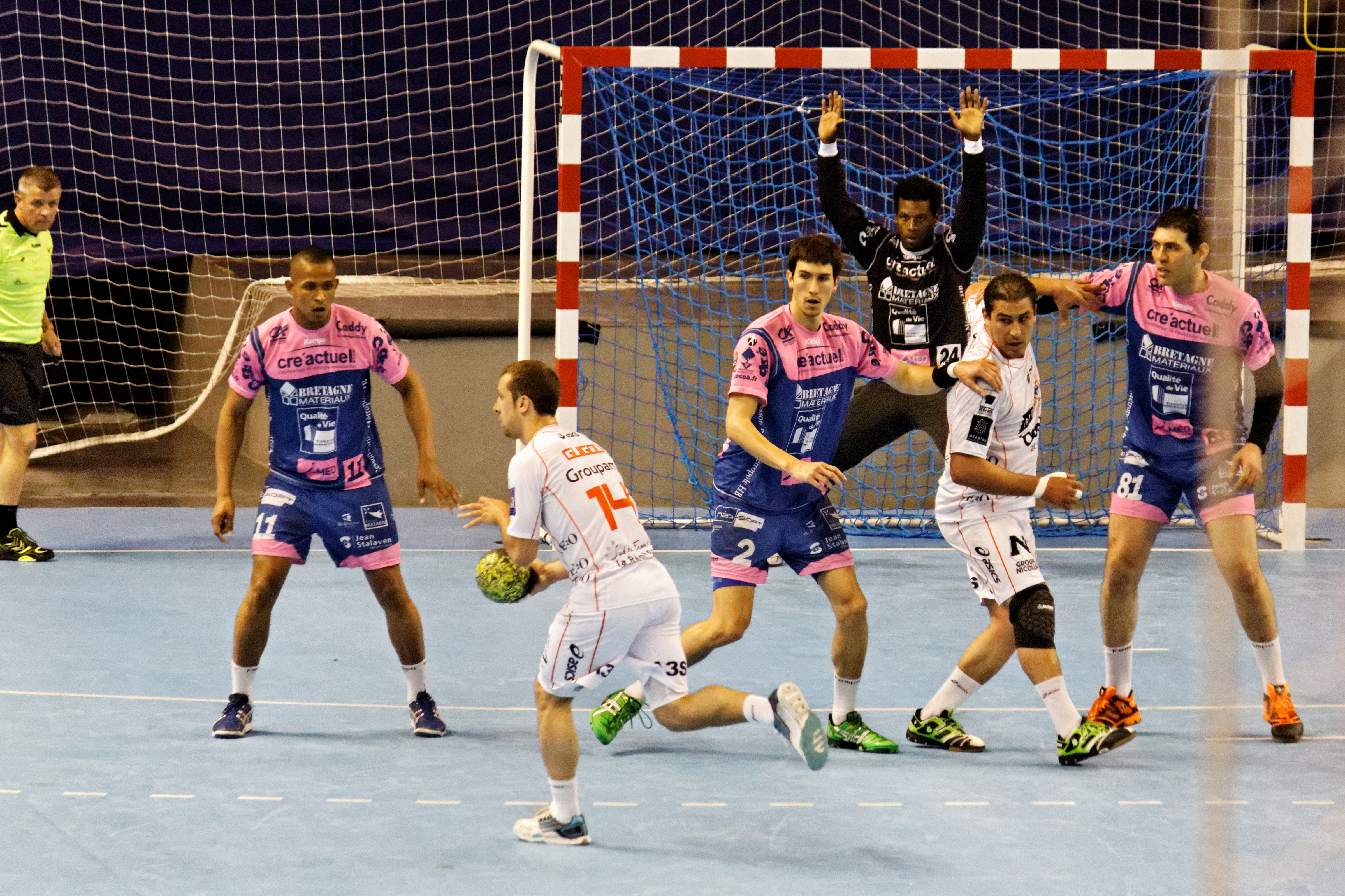 Match Cesson-Rennes MHB contre Montpellier AH, le 12 mai 2012. (Joueurs : Remy Gervelas, Sylvain Hochet, Mickaël Guigou, Benjamin Briffe, Issam Tej, Majed Ben Amor, Loic Weber)